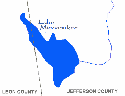 Created by user.